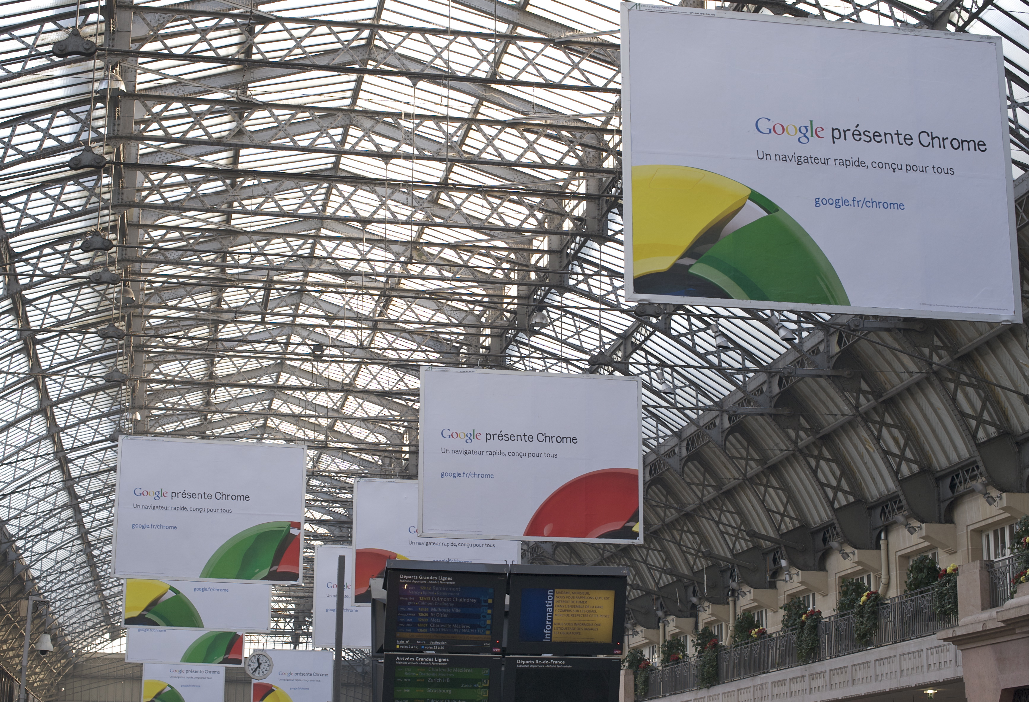 Use Chrome! It's awesome! Gare de l'Est, Paris